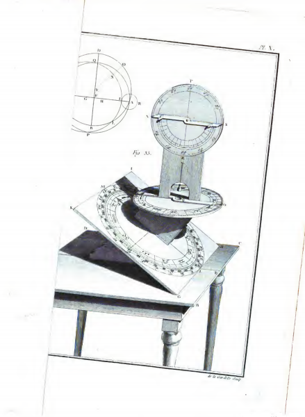 It is an image taken from the Histoire de l'astronomie moderne.